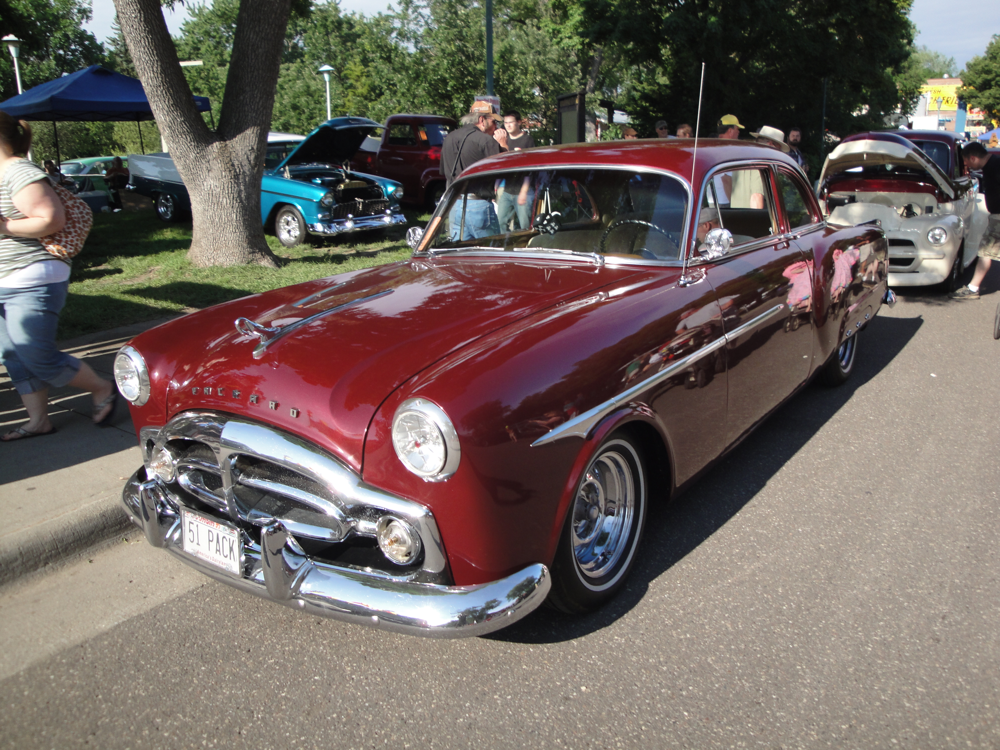 Customized 1951 Packard 200 Club sedan model 2401-2495; Minnesota Street Rod Association 39th Annual "Back to the Fifties" June 2012 Minnesota State Fairgrounds St. Paul MN